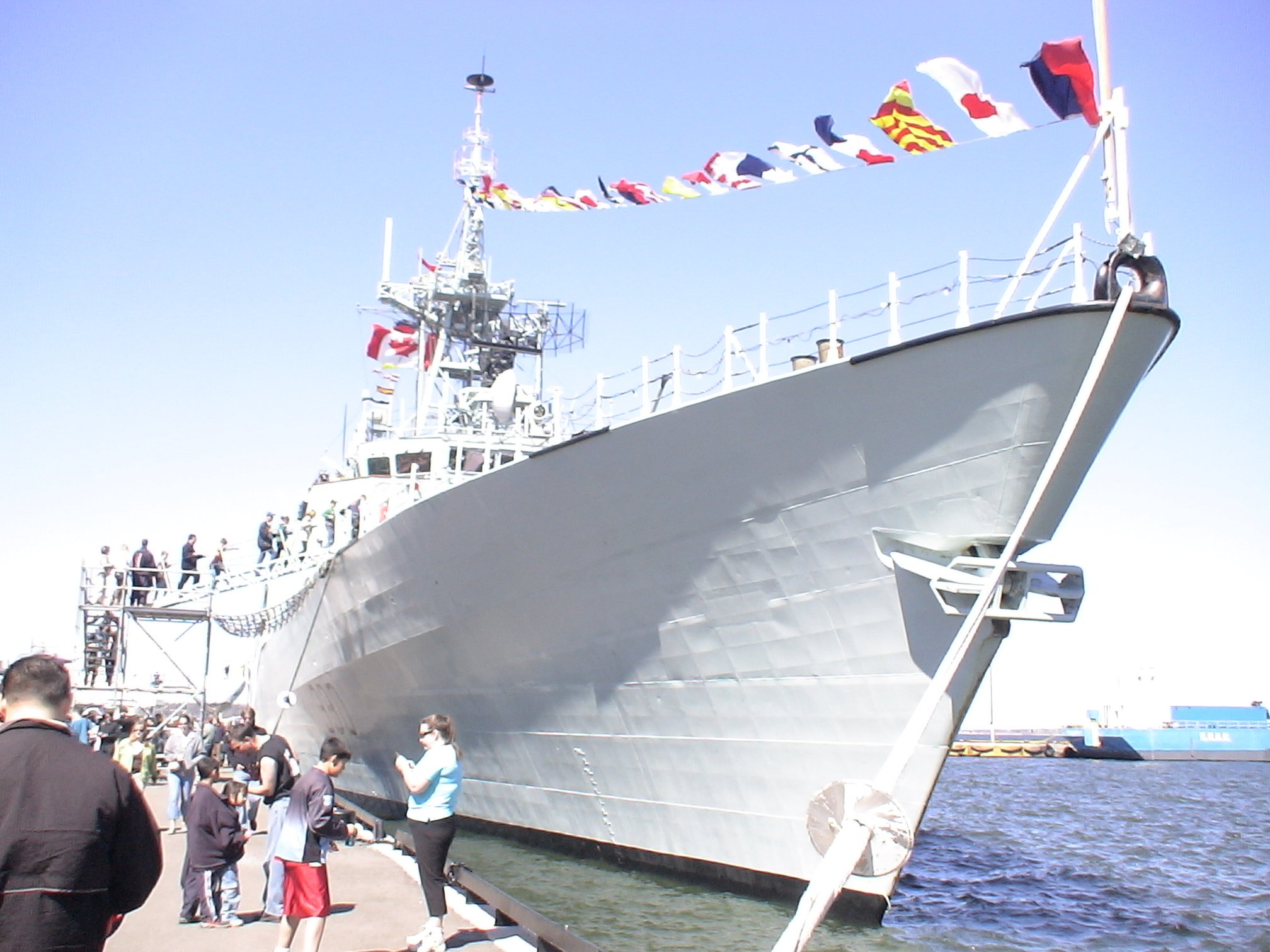 HMCS Halifax (FFH 330), a Canadian Forces Halifax-class frigate, in port in Hamilton, Ontario, Canada during her Great Lakes tour in 2007.